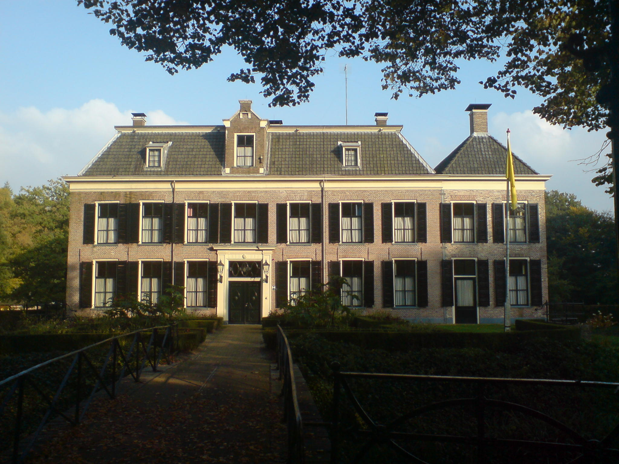 Huize Echten